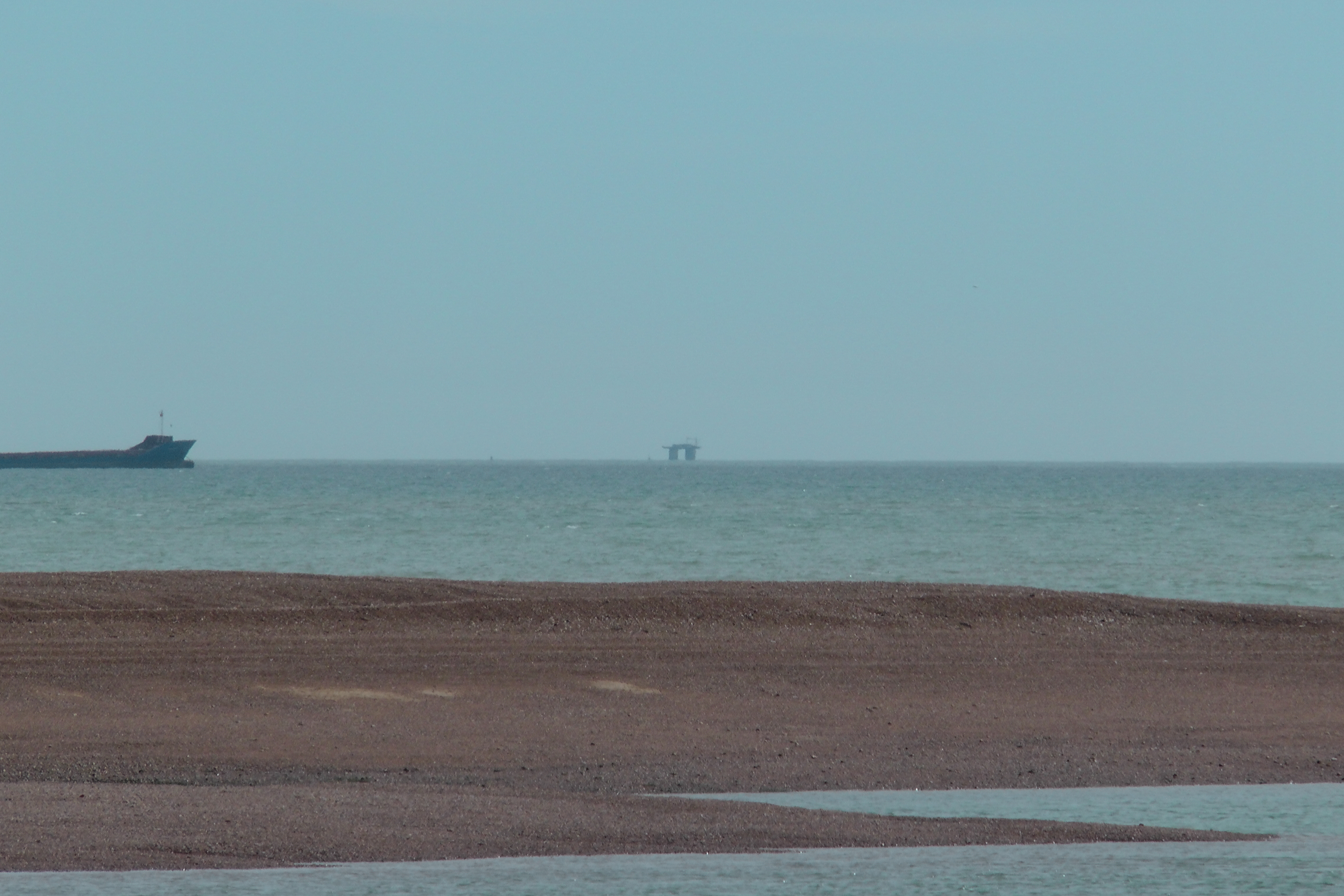 The Principality of Sealand seen from Felixstowe Ferry.